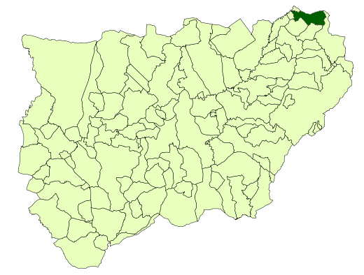 Situation of the municipality of Villarrodrigo (Jaén, Andalusia, Spain).